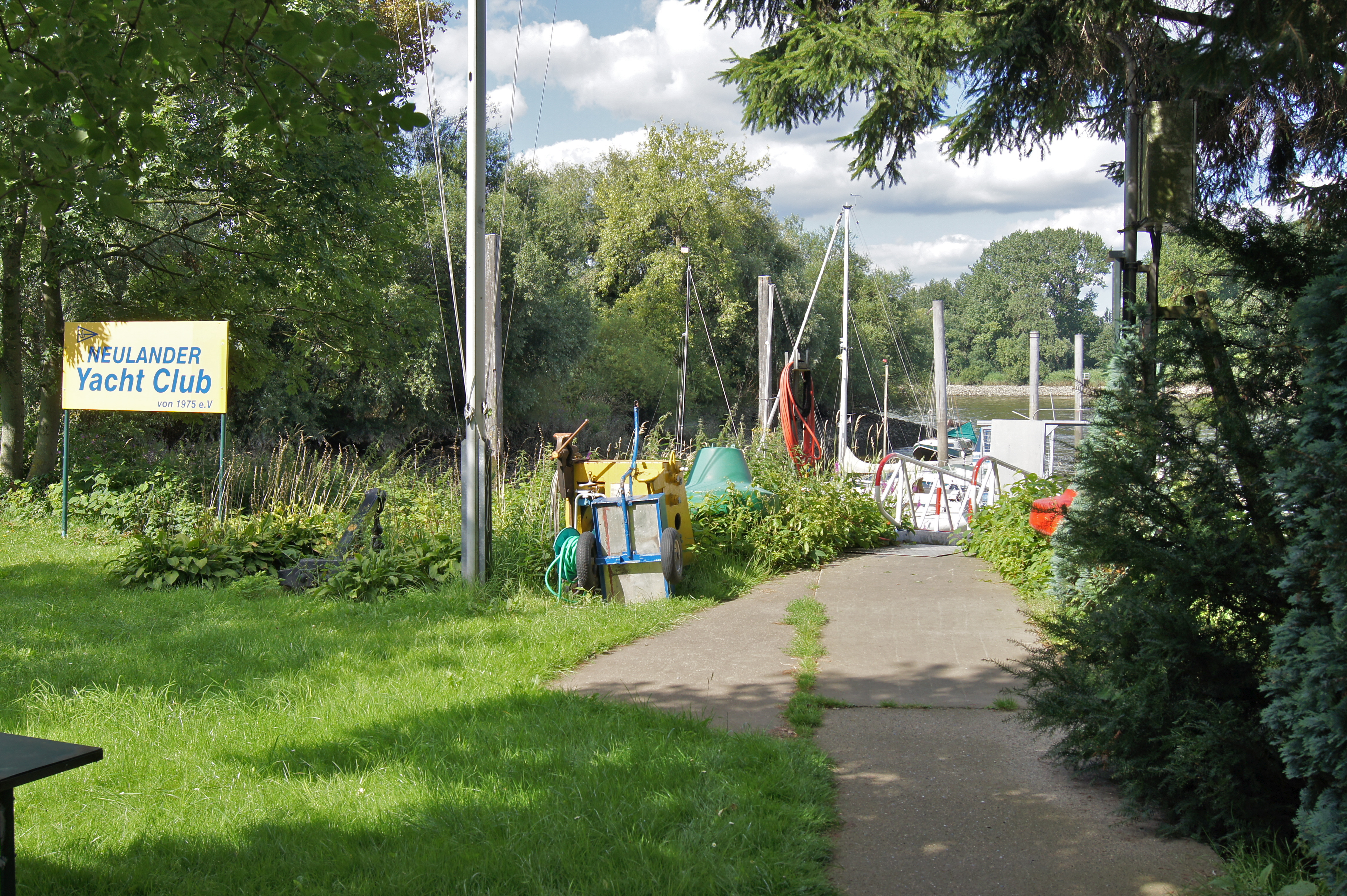 Hamburg (Neuland), Germany: Neuländer Yacht Club, marina at the Süderelbe